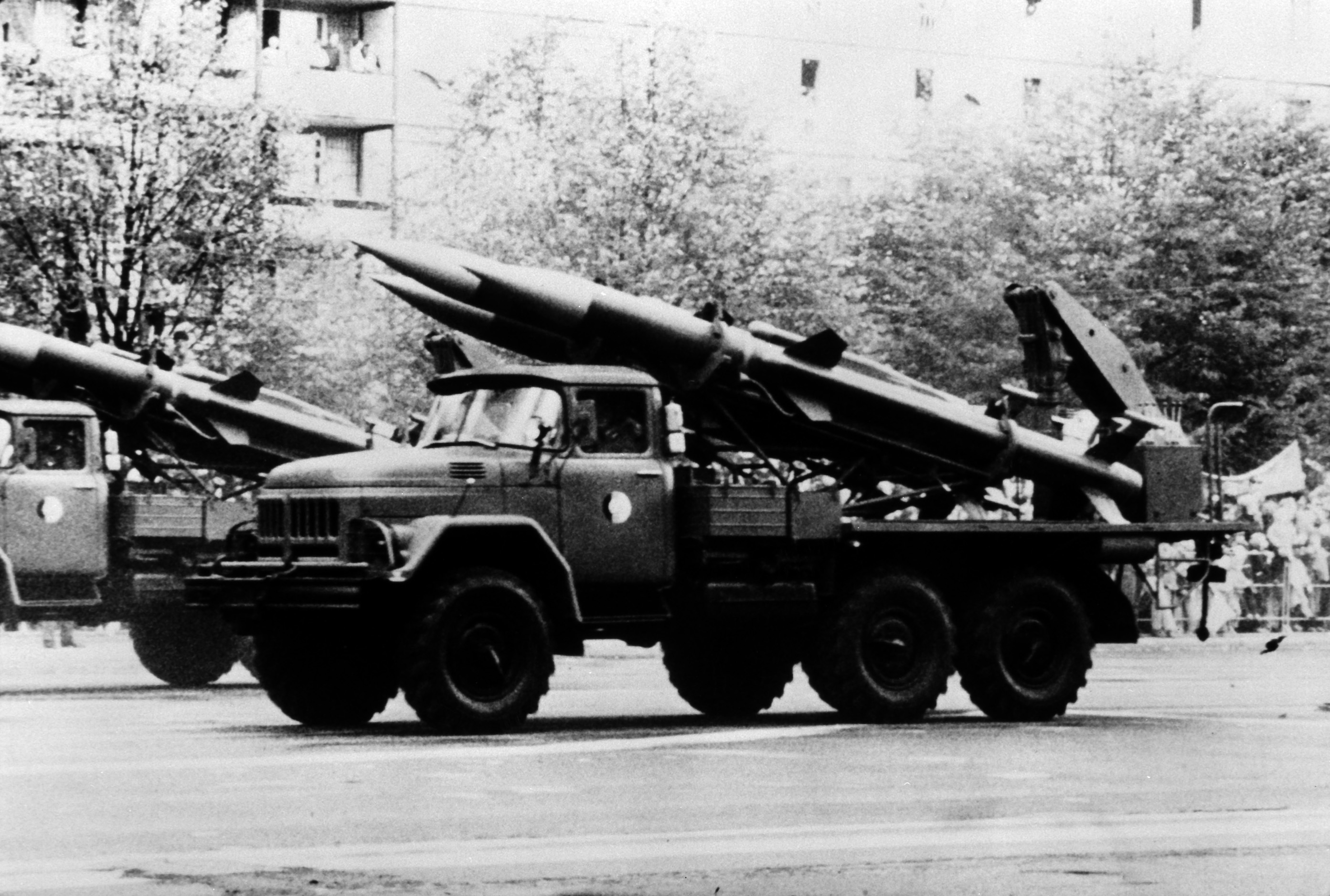 Left side view of an SA-6 Gainful surface-to-air (SAM) missile transported by a 2T7 transport vehicle based on ZiL-131 truck.